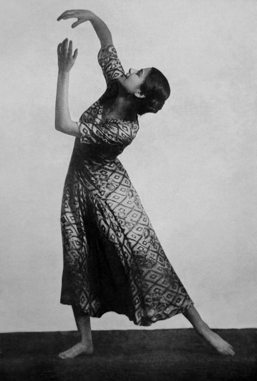 Hugo Erfurth (Dresden) Clotilde von Derp-Sacharoff From Der Kunstlerische Tanz Unserer Zeit [The Artistic Dance of Our Time] p. 21 Published 1928